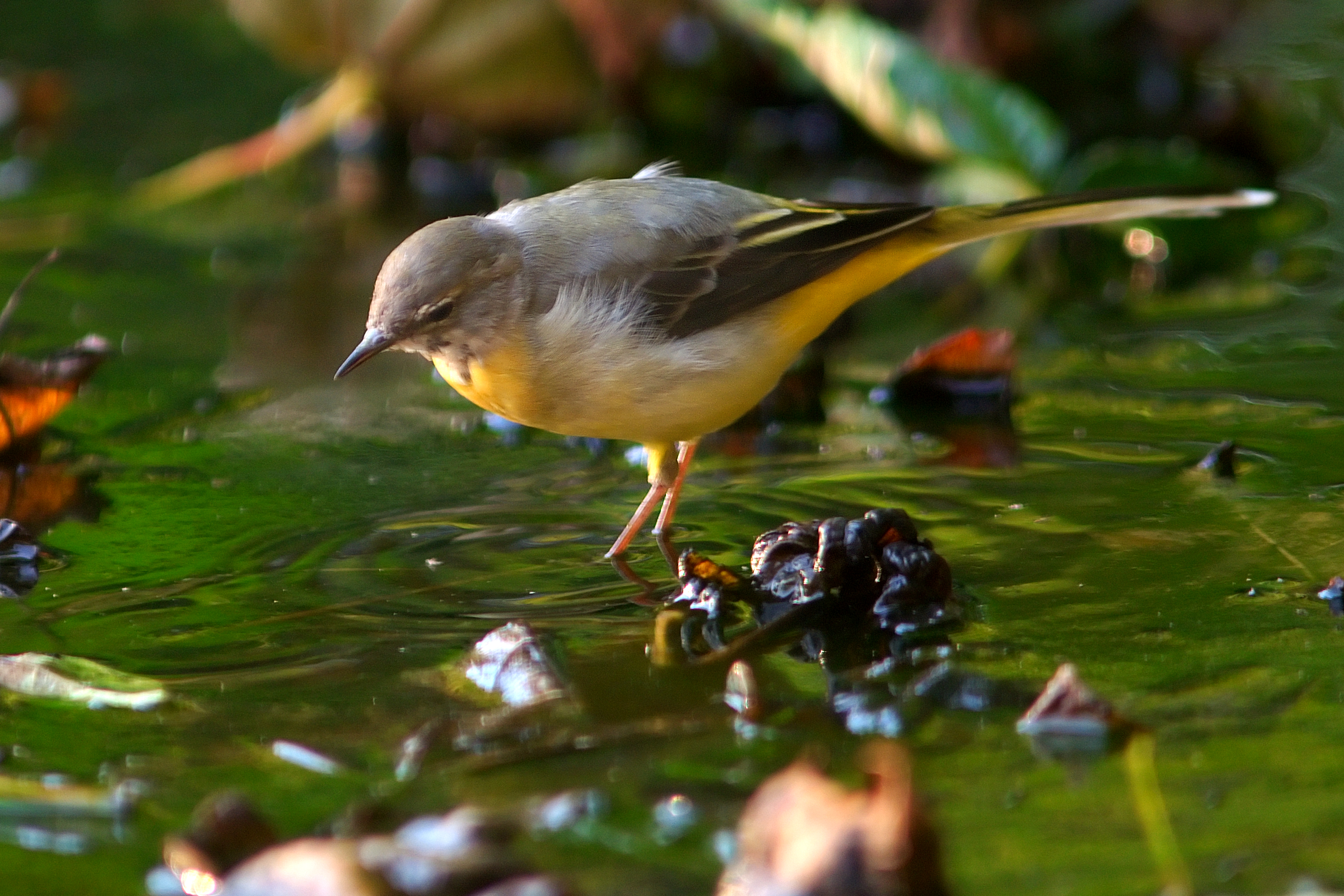 Motacilla cinerea (Grey Wagtail) in Belgium (Brussels)